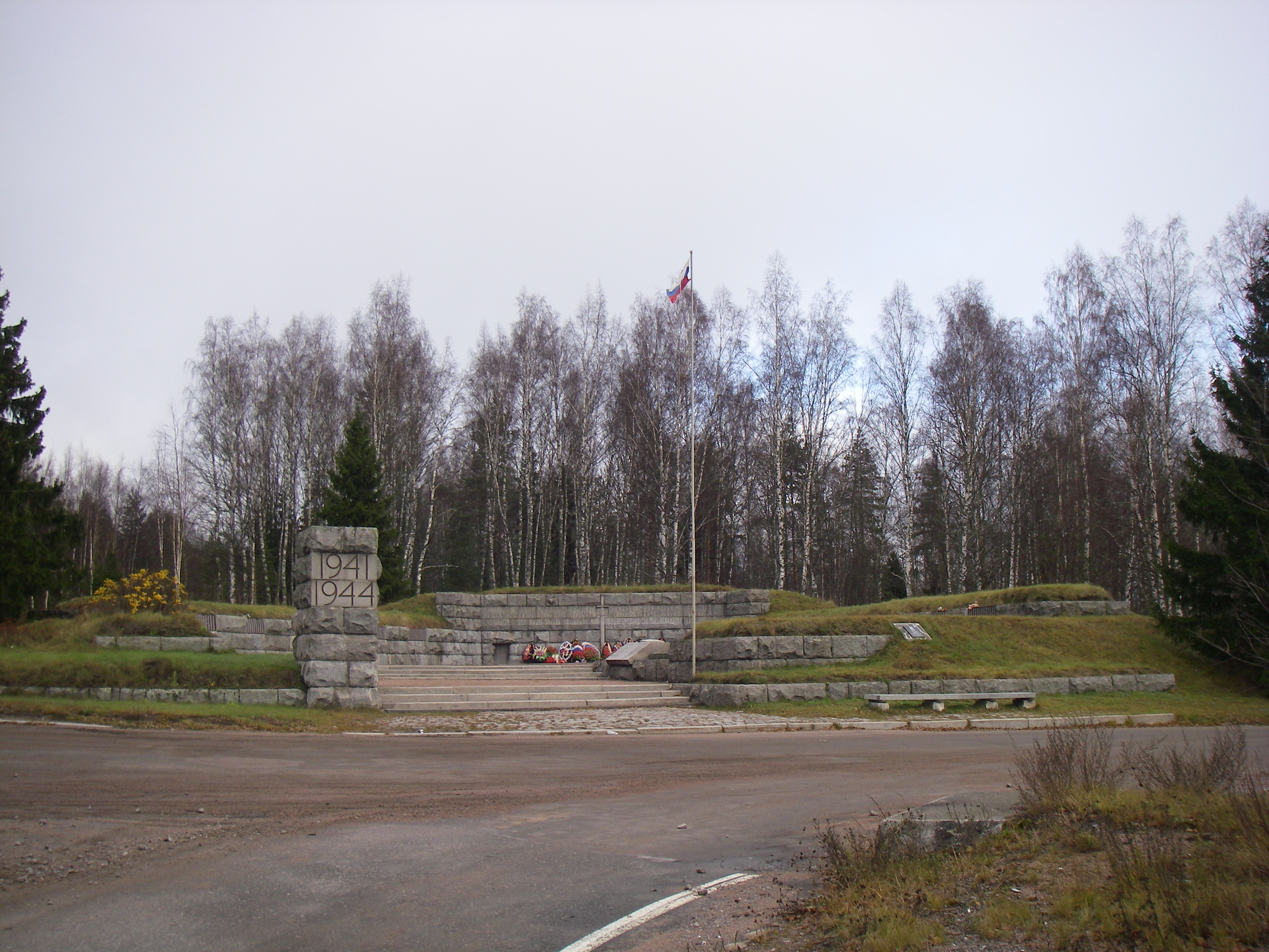 War memorial "Petrovka"